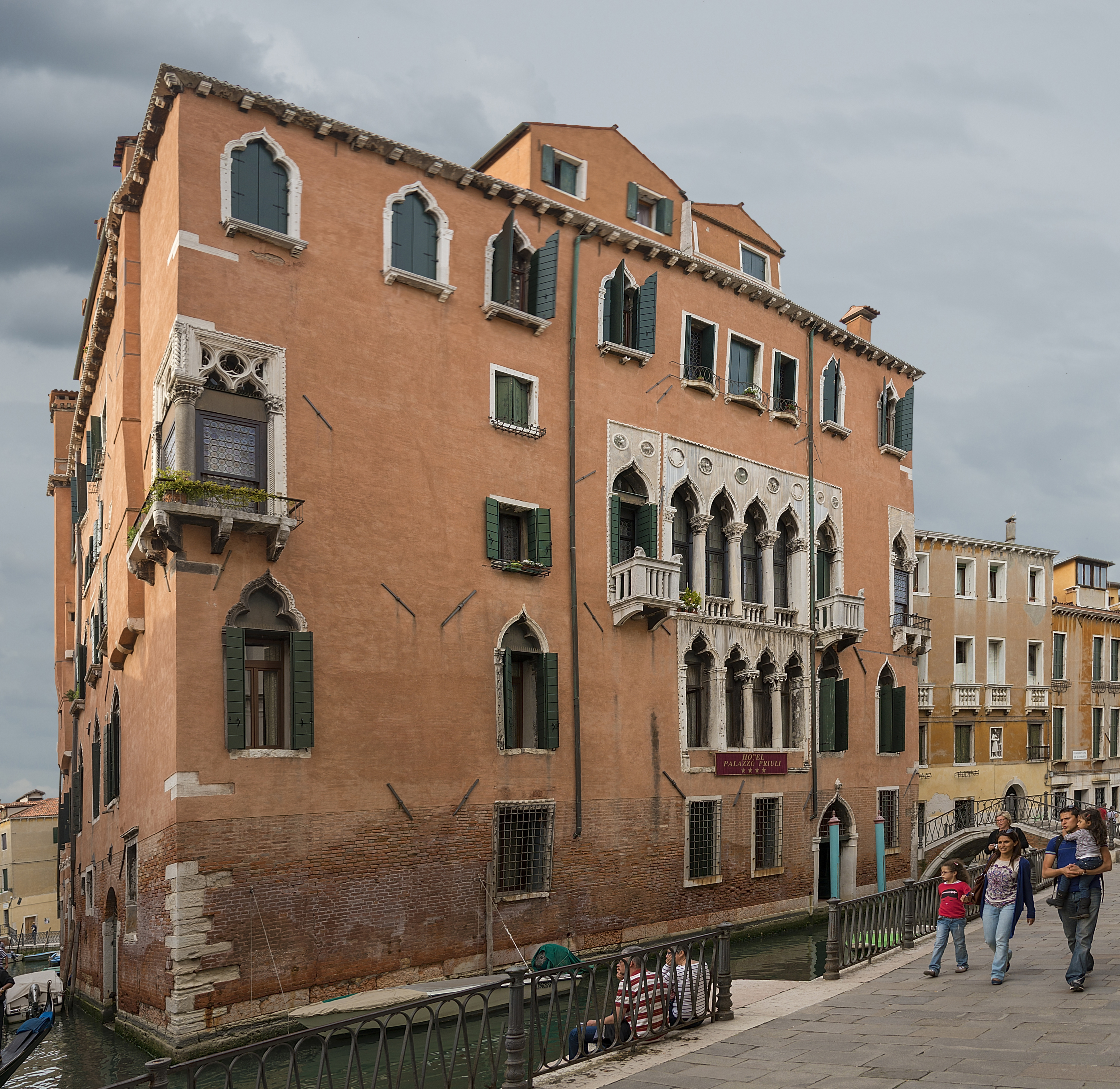 Palazzo Priuli all'Osmarin (built in 14th century) Venice, facade.